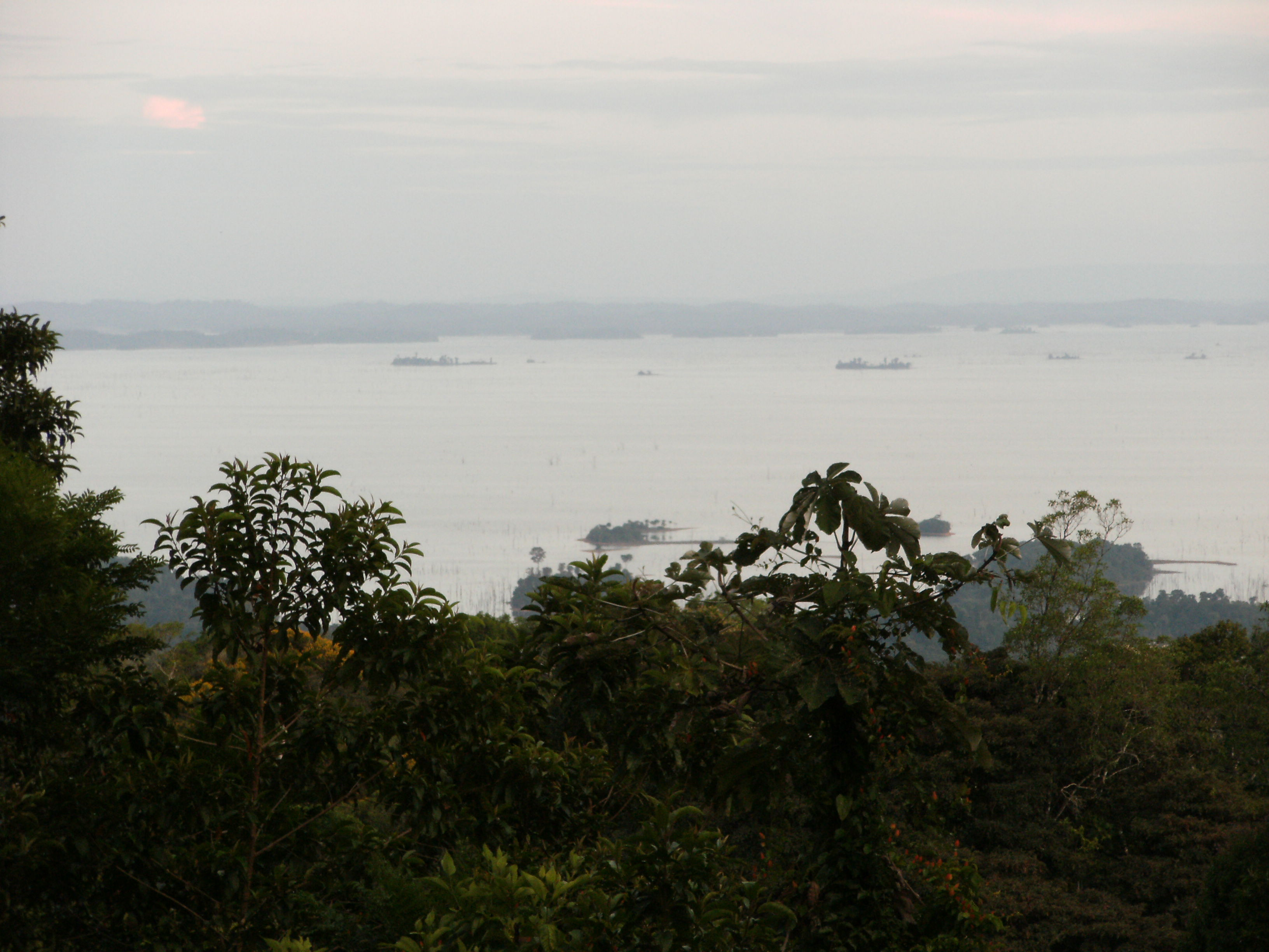 Suriname, view over Brokopondo reservoir from Brownsberg.